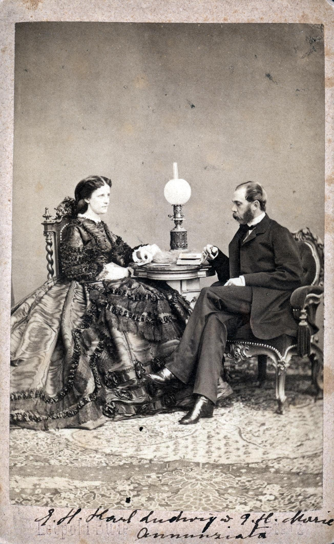 Princess Maria Annunziata of Bourbon-Two Sicilies and the Archduke Karl Ludwig of Austria.